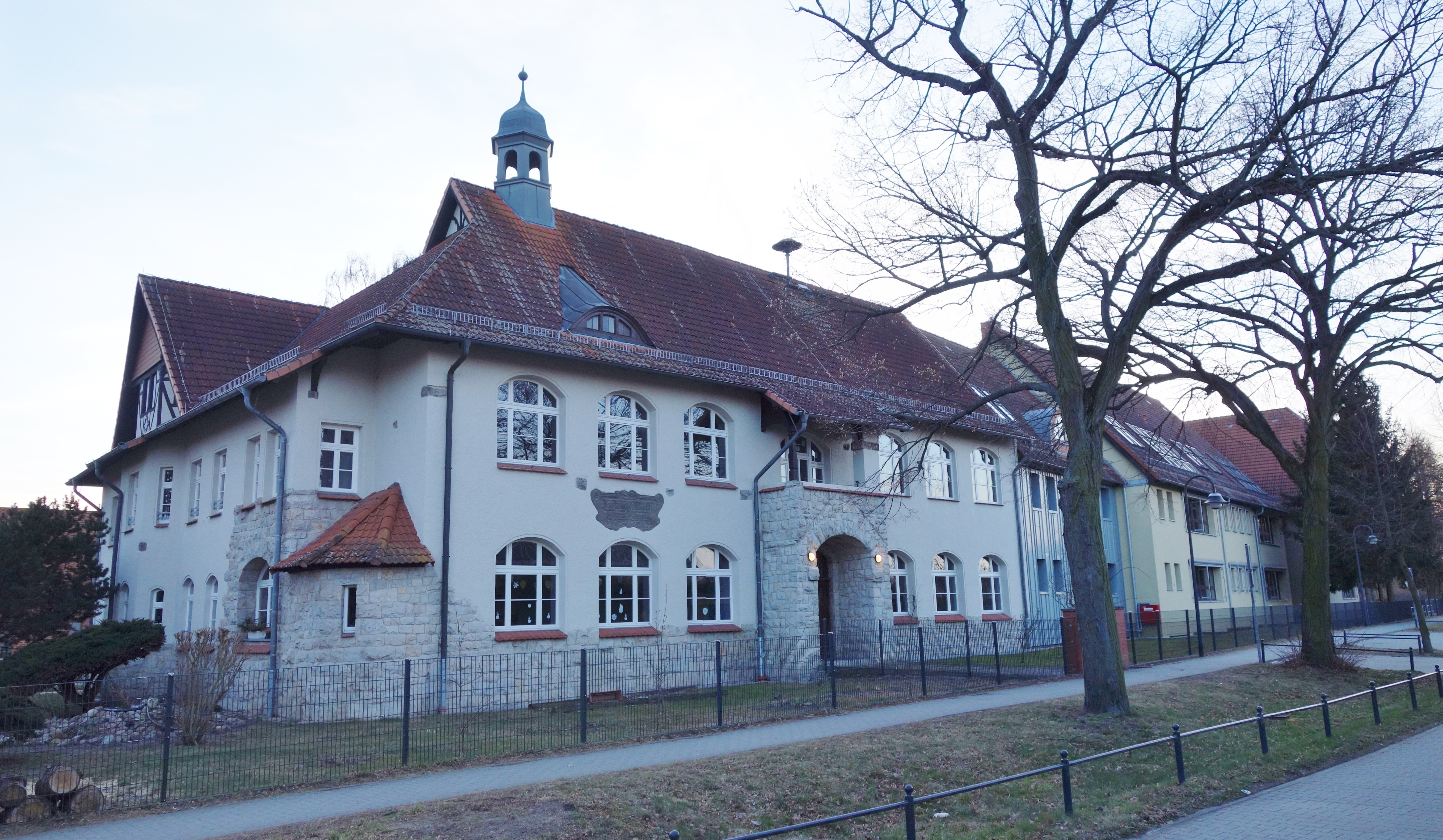 South-eastern view of the former elementary school in Großziethen , Schönefeld municipality , Dahme-Spreewald district, Brandenburg state, Germany